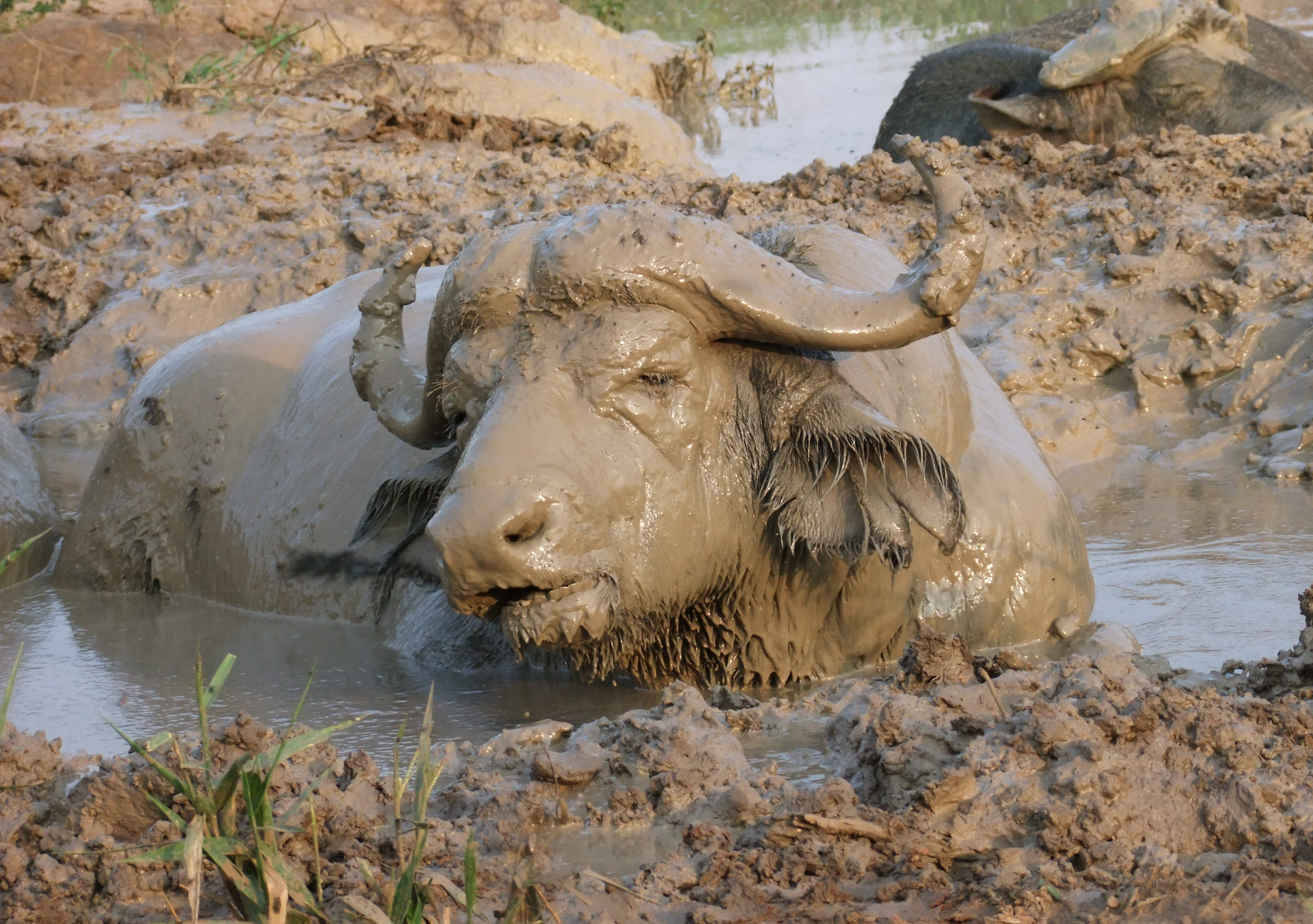 African Buffalo taking a mud bath in Murchison Falls National Park, Uganda